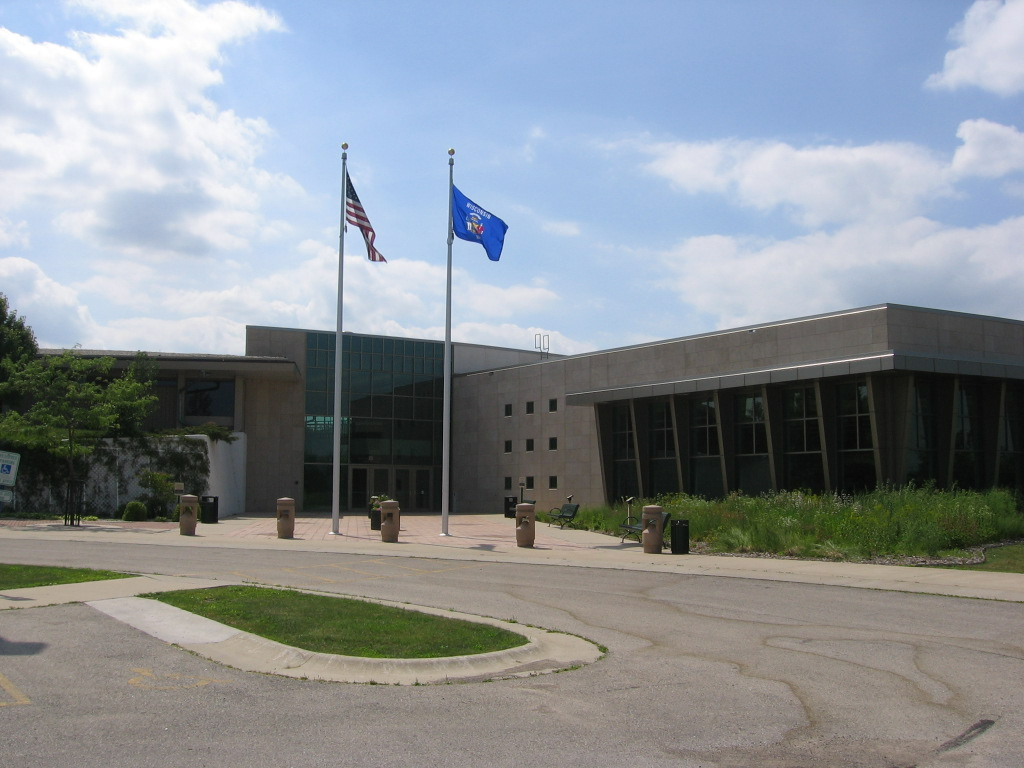 For use in Fond du Lac County and city articles. The view of the University of Wisconsin - Fond du Lac main entrance.